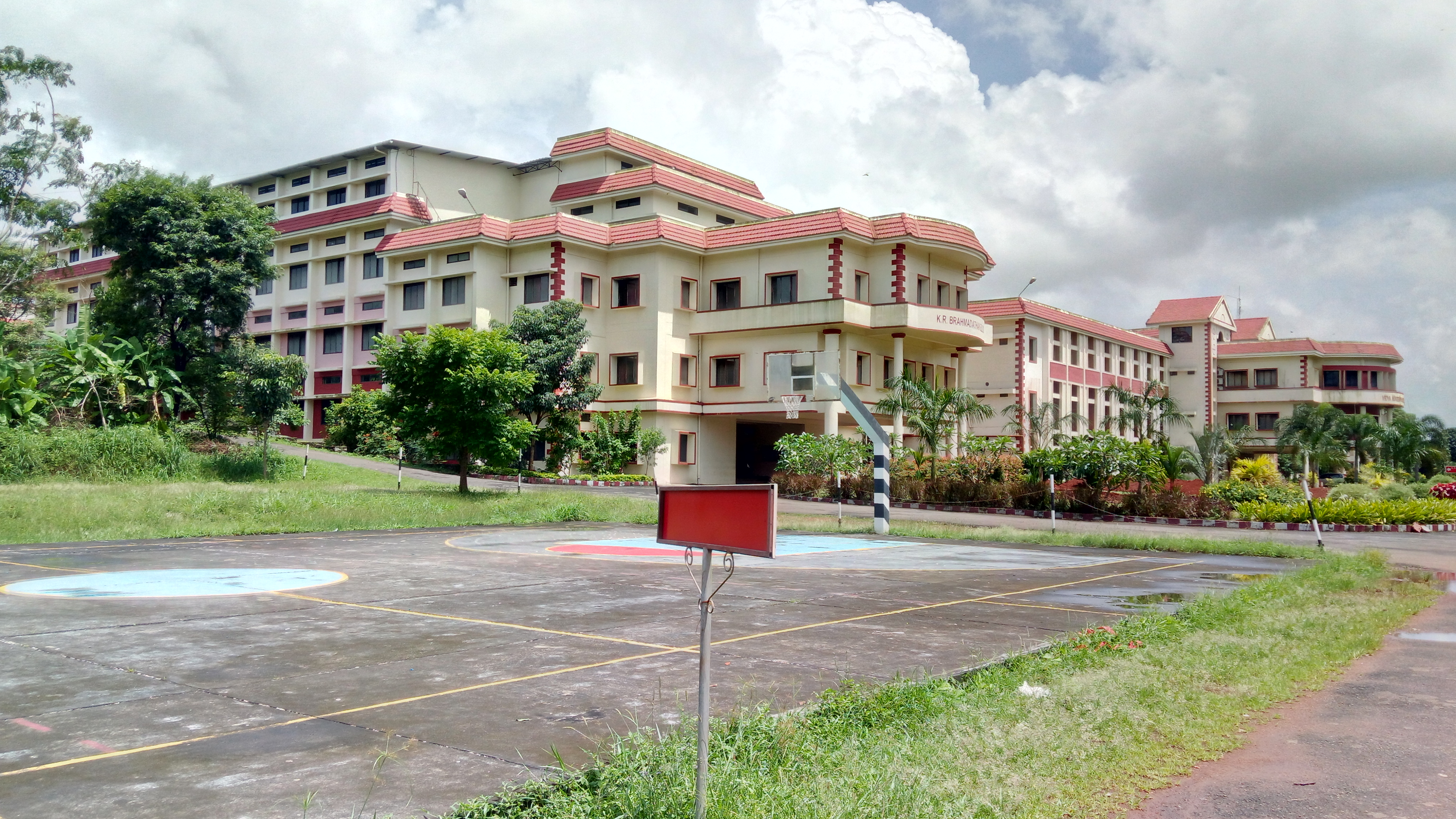 side view of Vidya Academy of Science and Technology, Thrissur, Kerala, India